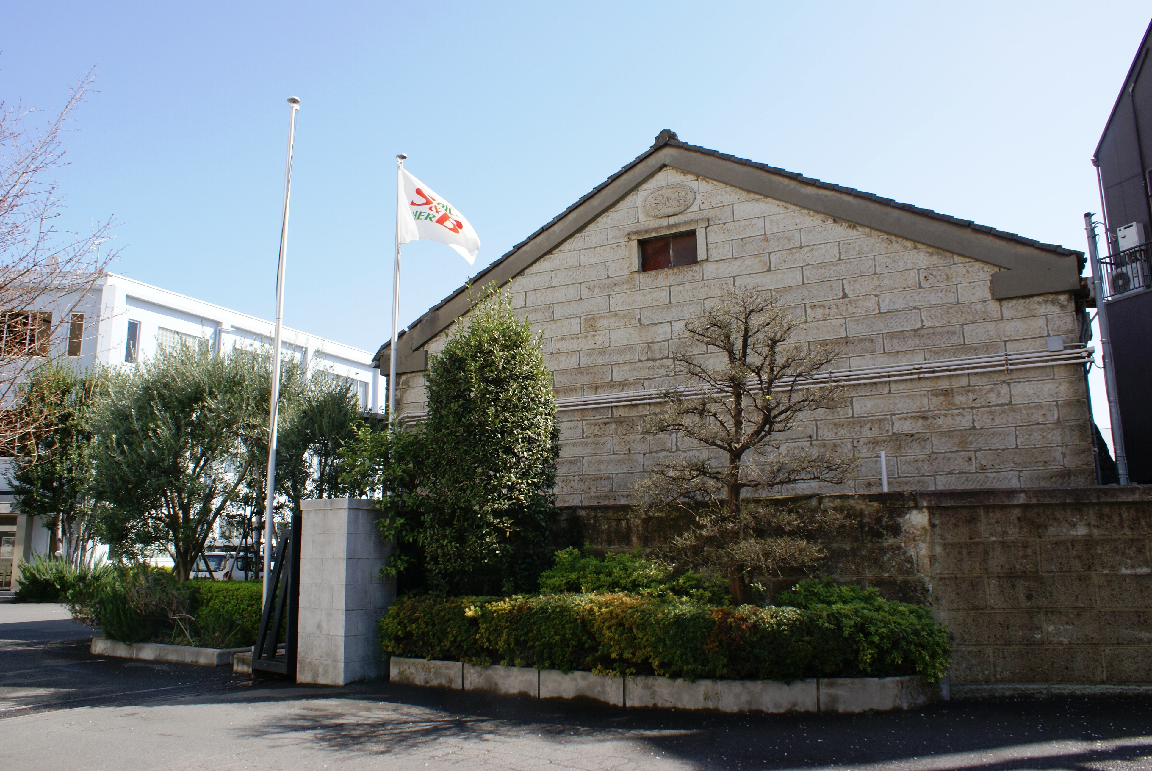 S & B Foods Itabashi Spice Center